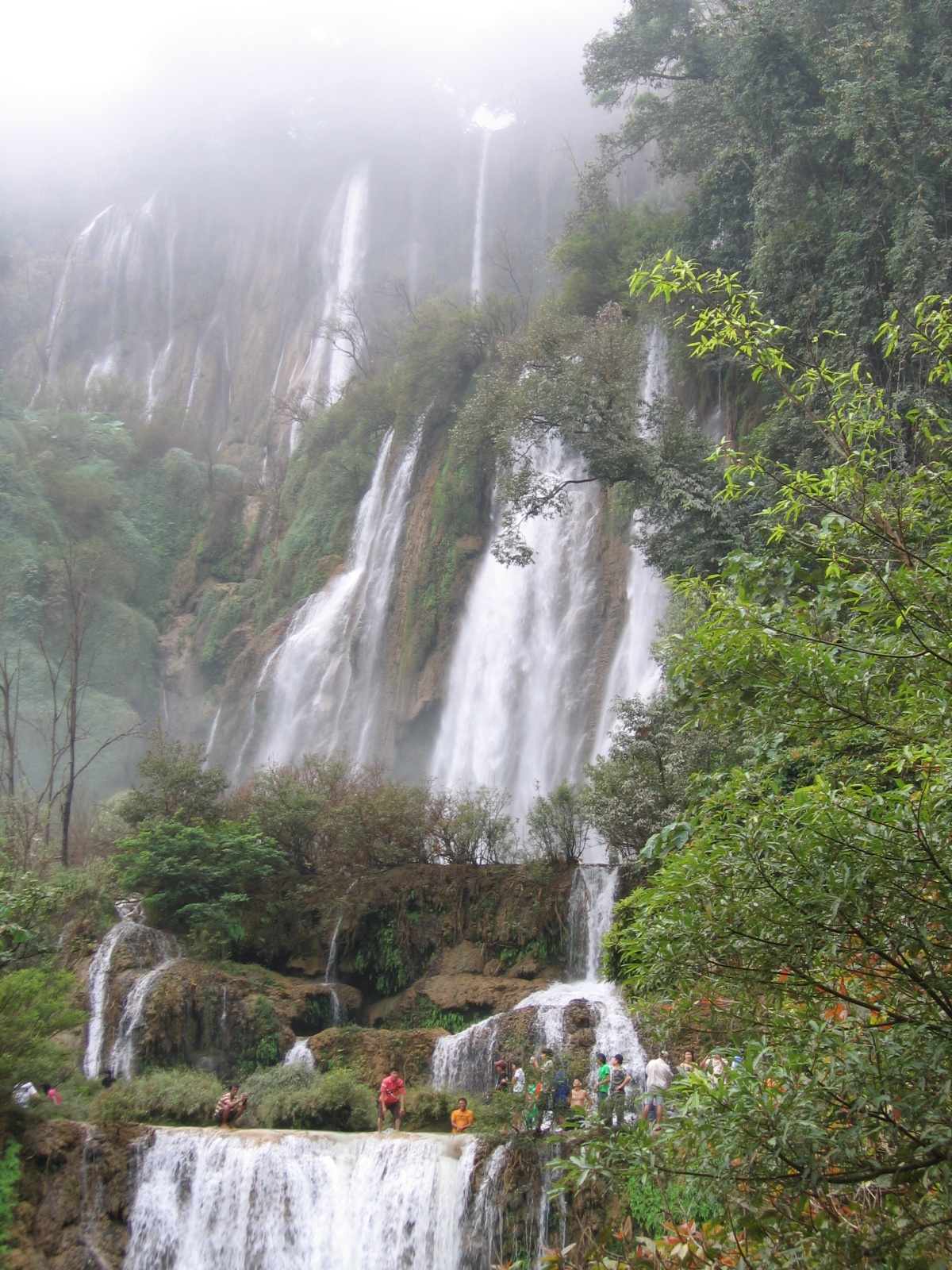 Thi Lo Su (Thai: ทีลอซู), the largest waterfall of Thailand at about 200m tall and 400m wide (a group of drops far right of the waterfall is not captured in the photo), in Umphang Wildlife Sanctuary, Amphoe Umphang, Tak, Thailand.